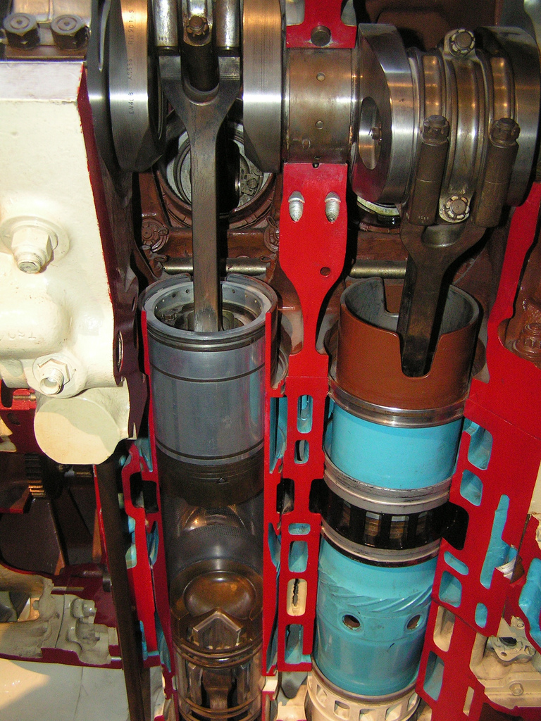 Cut away of a Napier Deltic Engine, looking at the some of the pistons. National Railway Museum, York, UK.